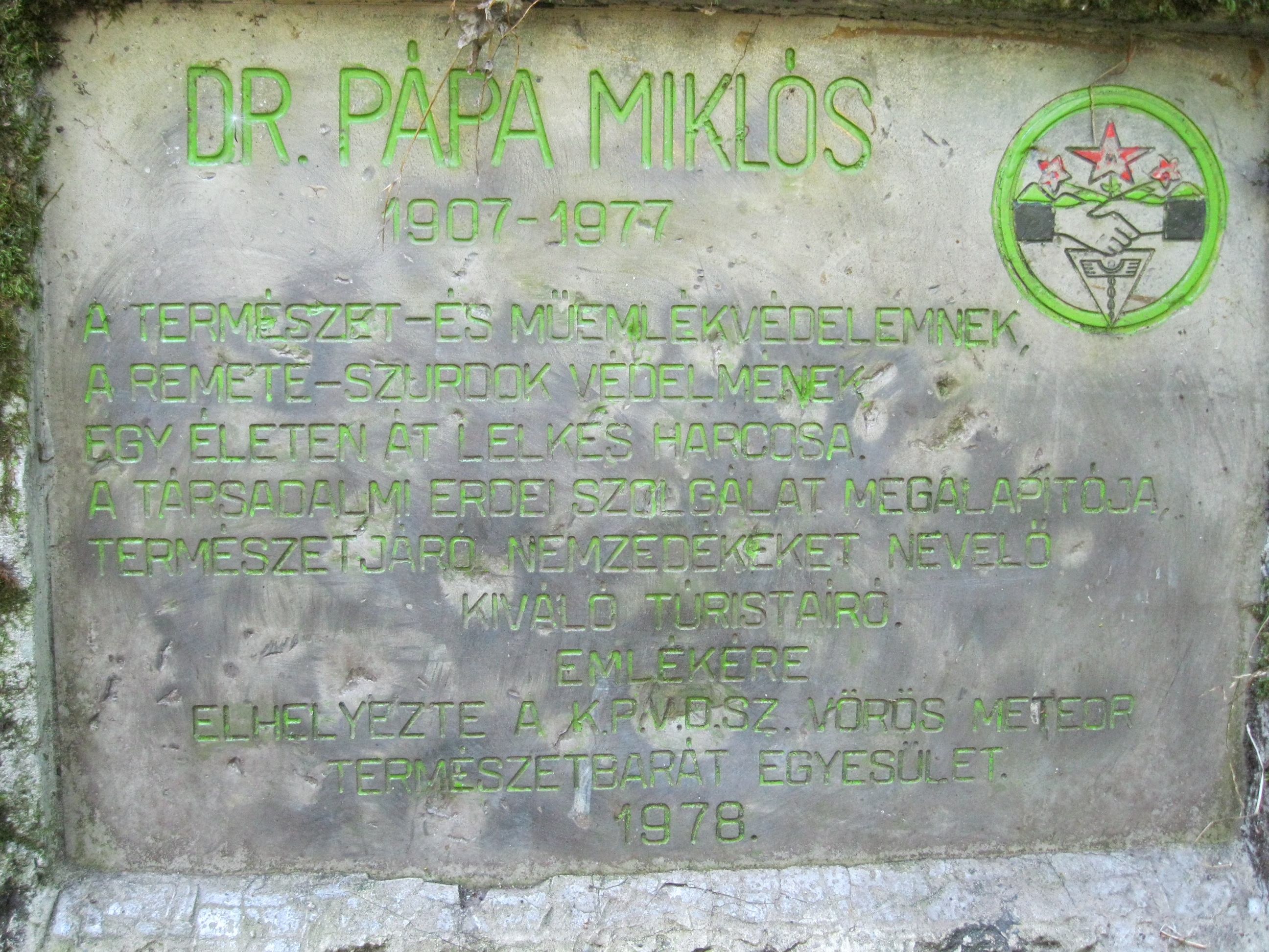 Plaque of Miklós Pápa (Remeteszőlős, Remete Valley)